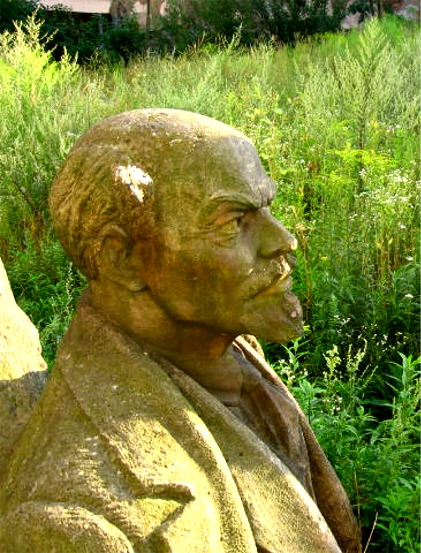 Part od Stalin and Lenin Monument by Rudolf Doležal and Vojtěch Hořínek in Olomouc, Czech Republic